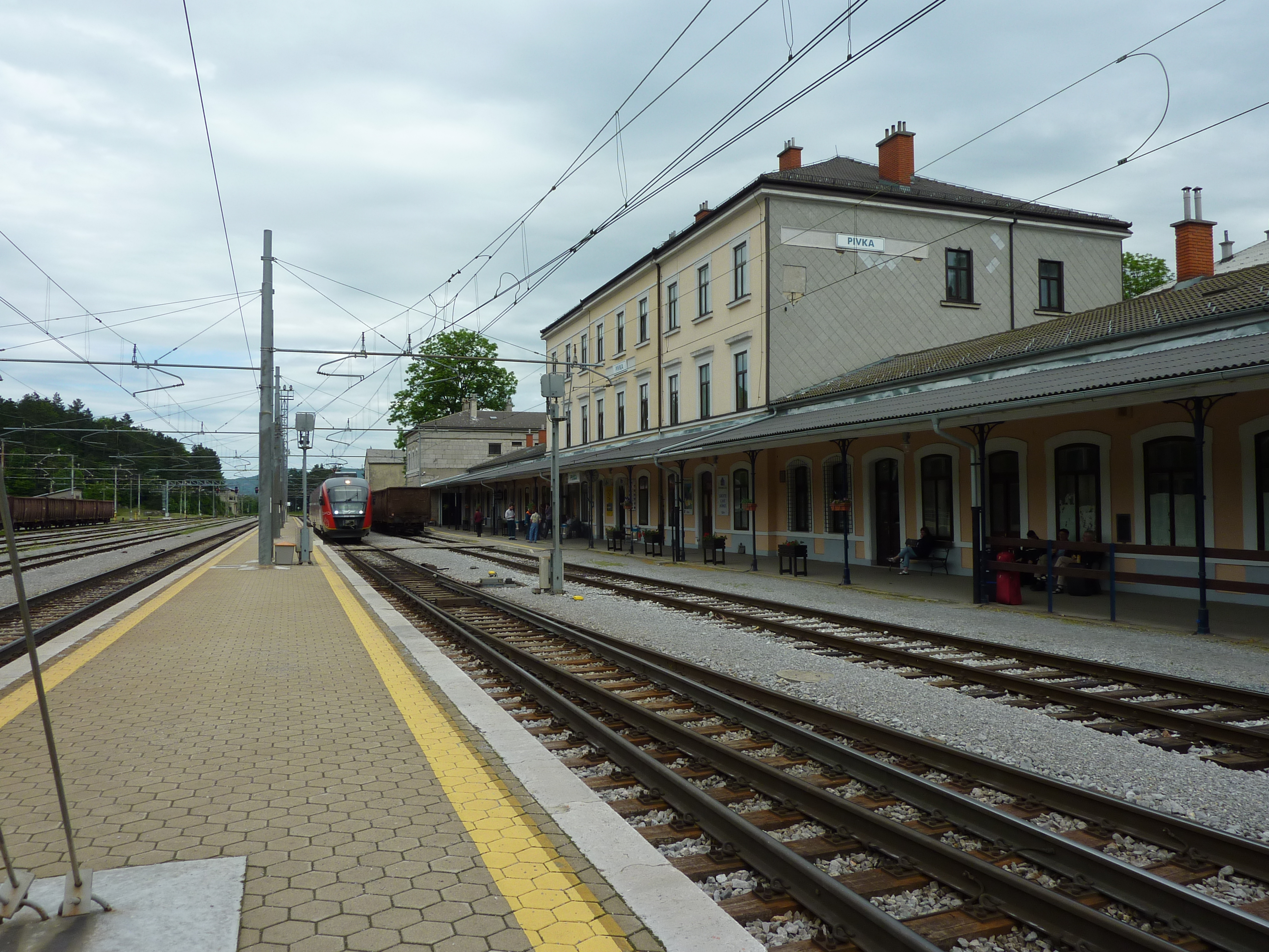 Railway station Pivka in Slovenia